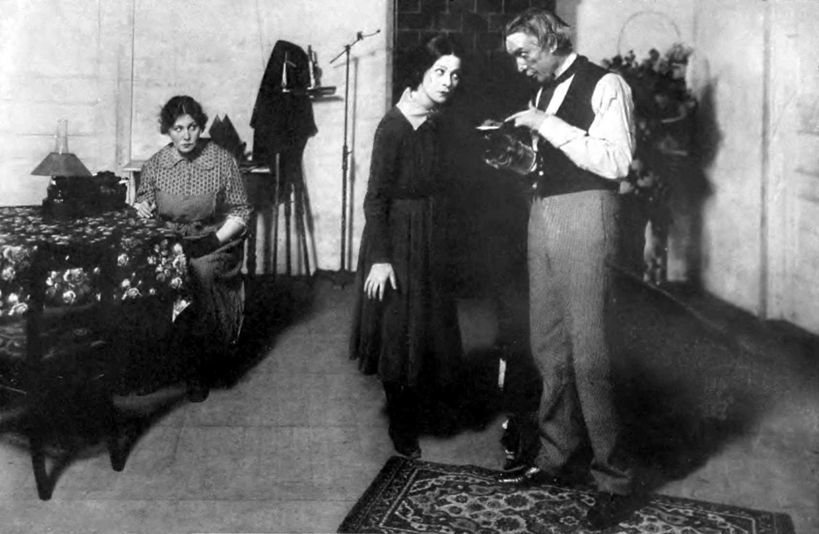 Photograph of Amy Veness (Gina Ekdal), Alla Nazimova (Hedvig) and Edward Connelly (Old Ekdal) in the original Broadway production of The Wild Duck Caption reads as follows:Act II. Ekdal—"Yes—water—want it for something—want to write and the ink has got as thick as porridge."